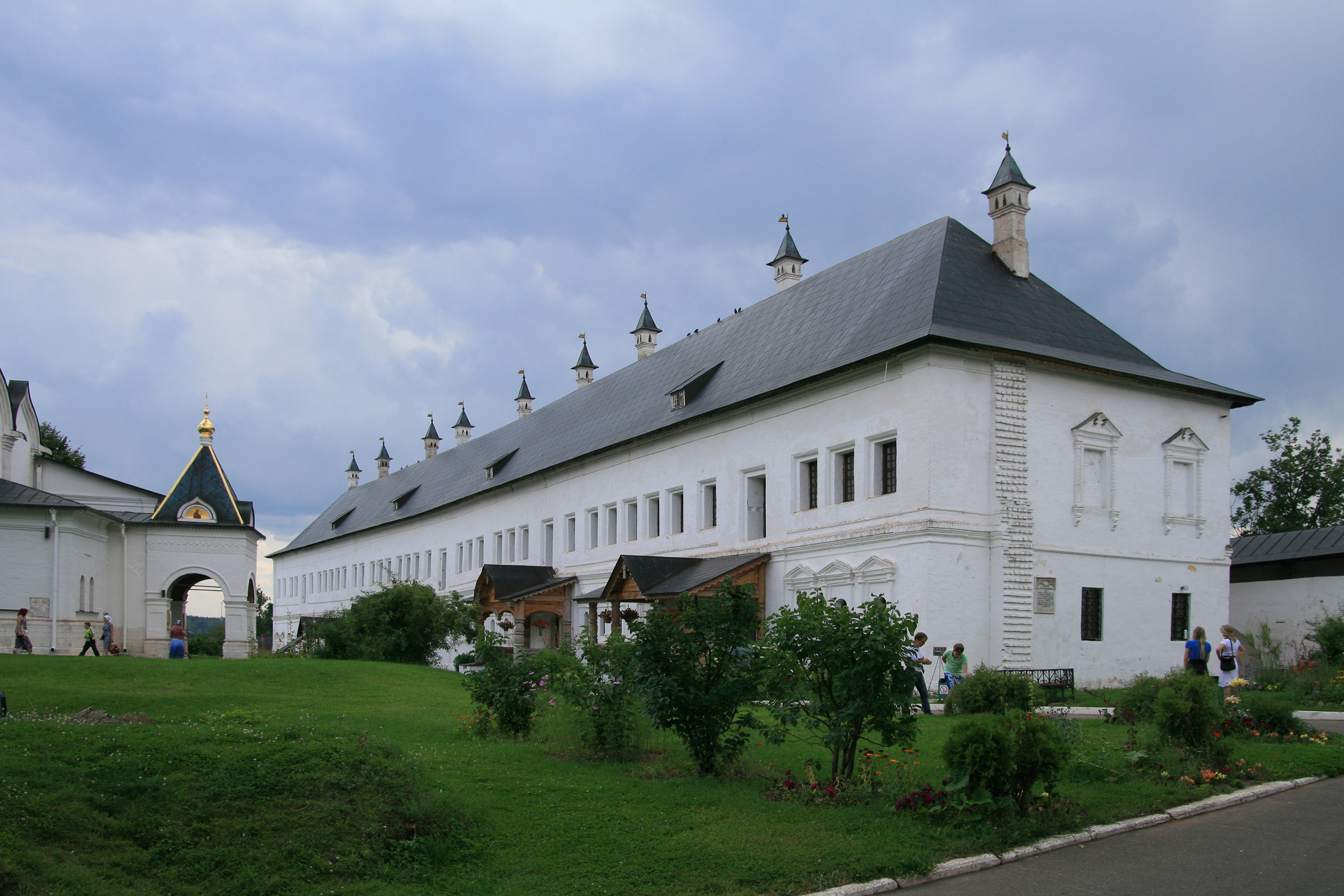 Palace of the Tsar Alexis of Russia, XVII c